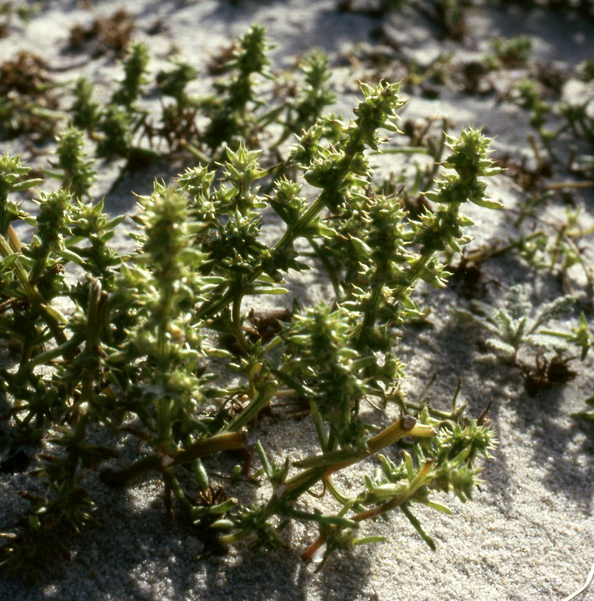 Salsola kali, Heligoland (Germany)